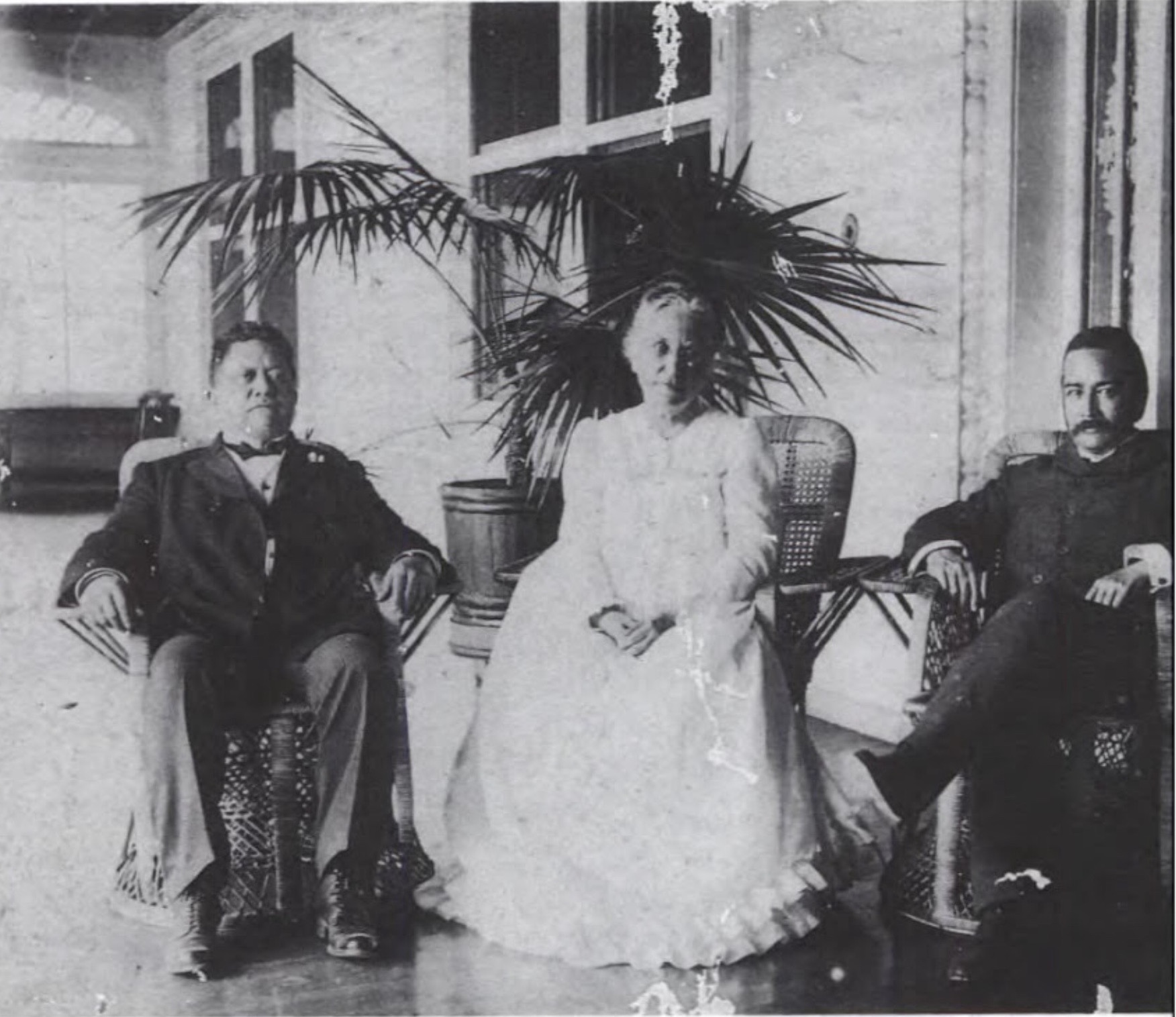 Toney Afong (right) visits his mother and cousin George C. Beckley in Honolulu.